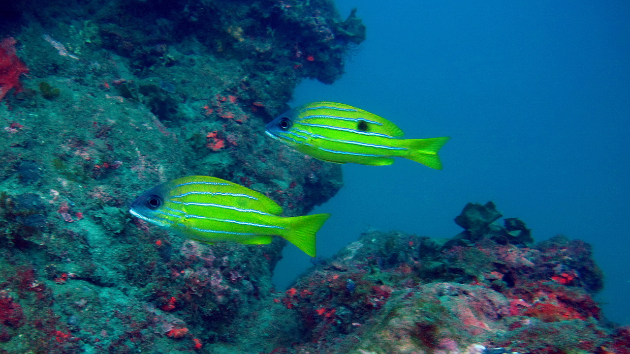 This photo of the Five-lined Snapper was taken by Vincent C Chen, one of the contributors for EZDive magazine, at Long-Dong Bay, Northeast Coast, Taiwan.